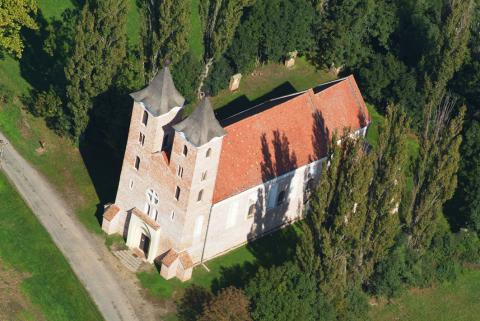 Aerial view of the Árpás church, Hungary, aerialphotgraphy